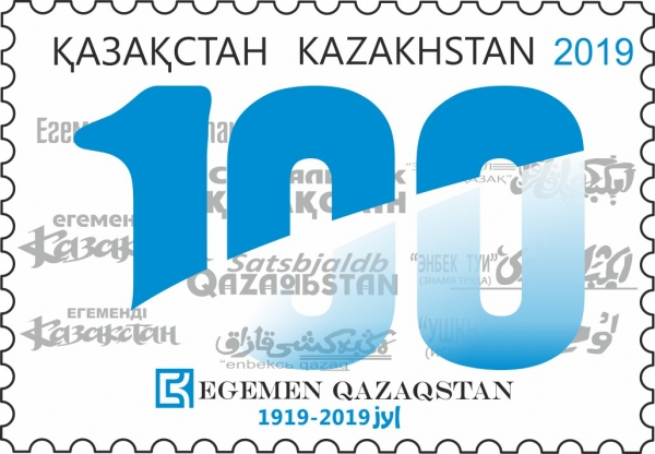 Centenary of Newspaper "Egemen Kazakhstan"